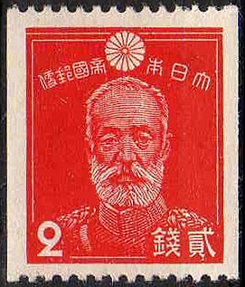 An Imperial Japanese stamp with a portrait of Maresuke Nogi on it.